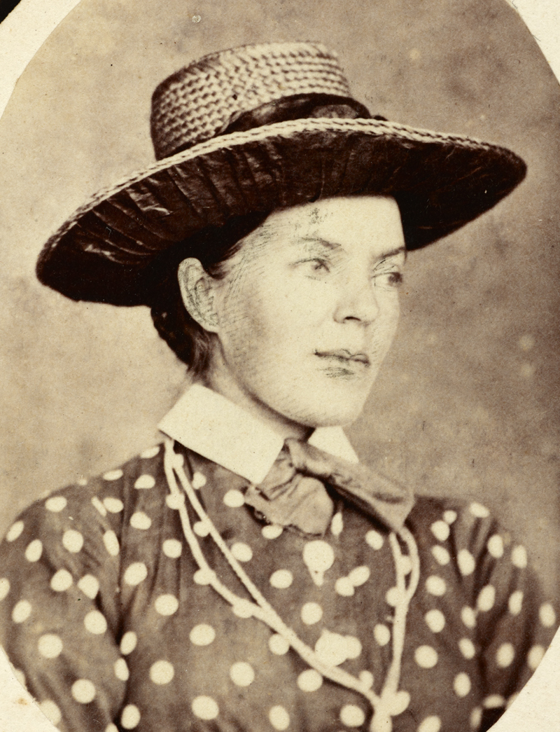 Photograph of Mary Beatrix Dobie (Dobbie) from the Auckland Libraries Heritage Collections 1342-Album-244-133-5. Dated 1879, photographer unknown.